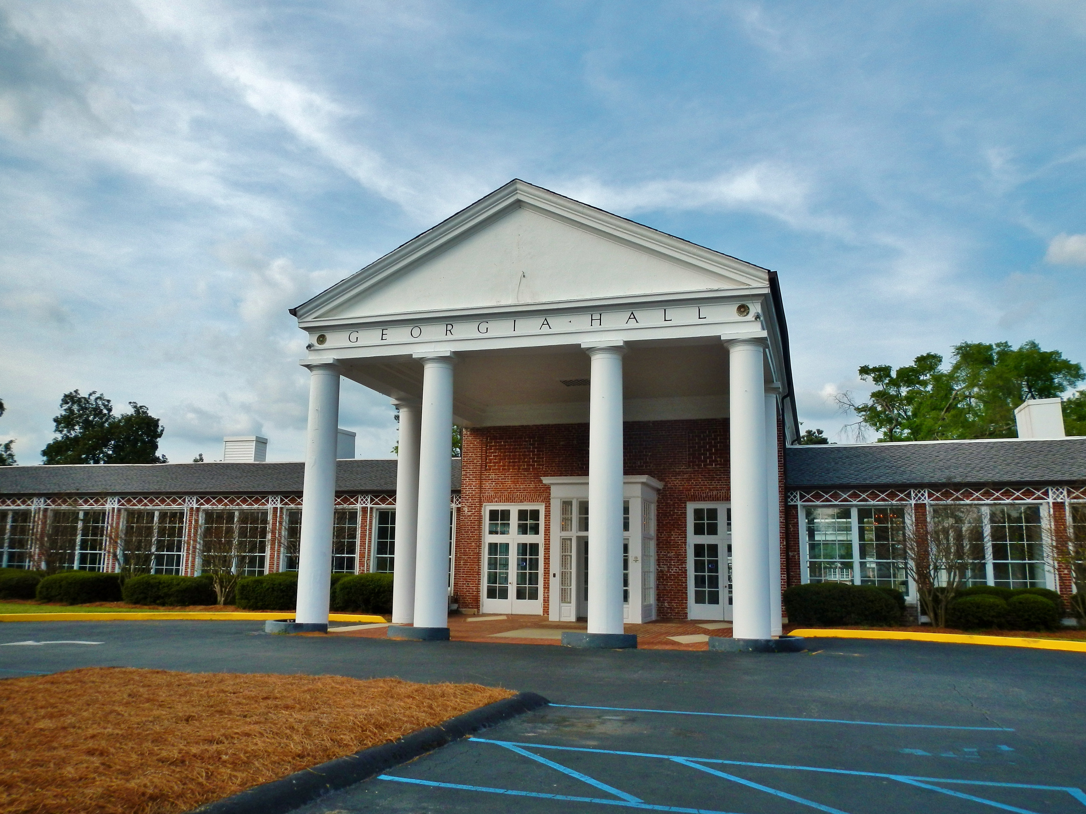 This is a photo of Georgia Hall at the Roosevelt Warm Springs Institute for Rehabilitation. It was taken by me, Rivers Langley.